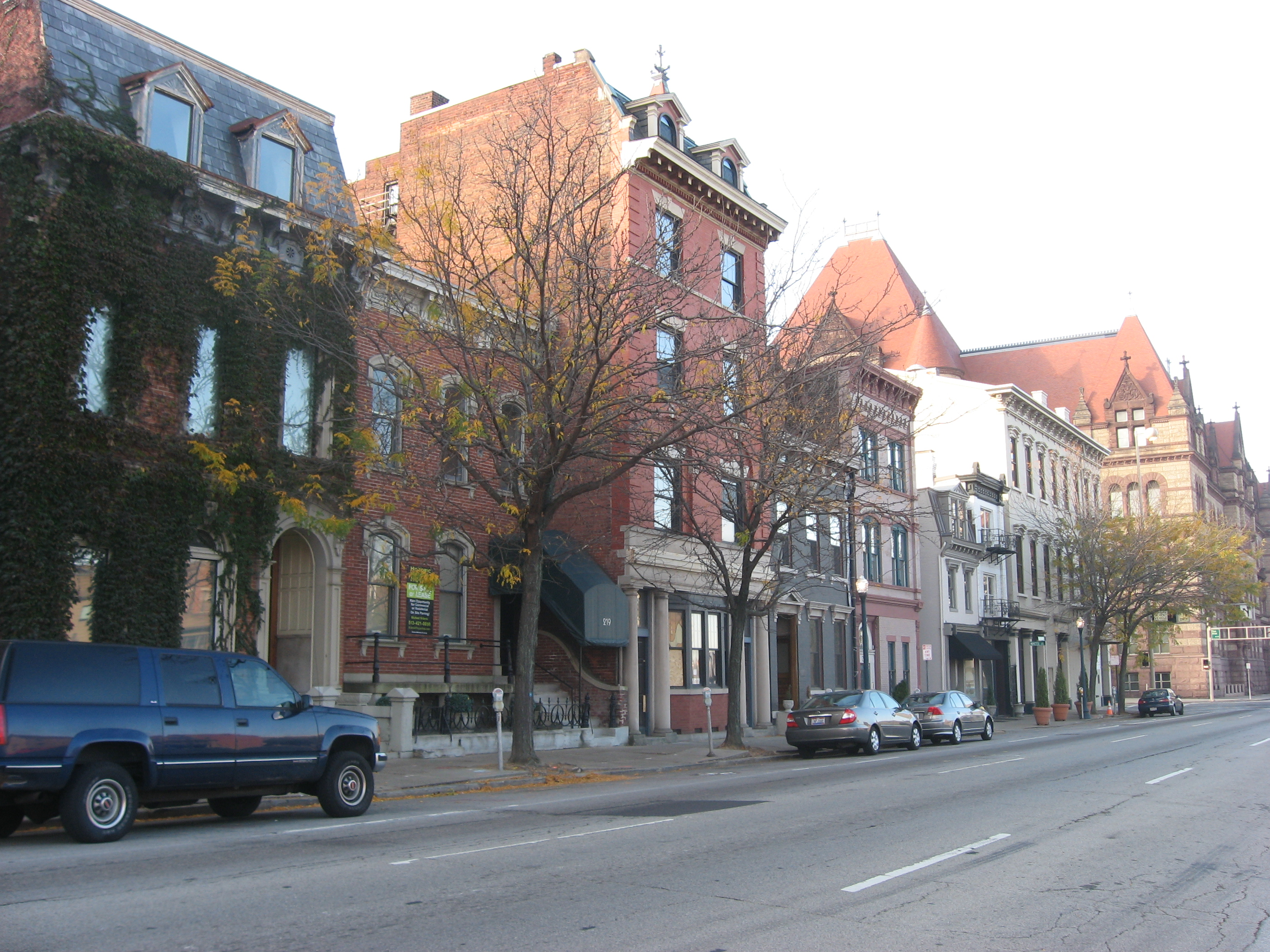 Houses on the southern side of the 200 block of W. Ninth Street in downtown Cincinnati, Ohio, United States. This block is part of the Ninth Street Historic District, a historic district that is listed on the National Register of Historic Places.